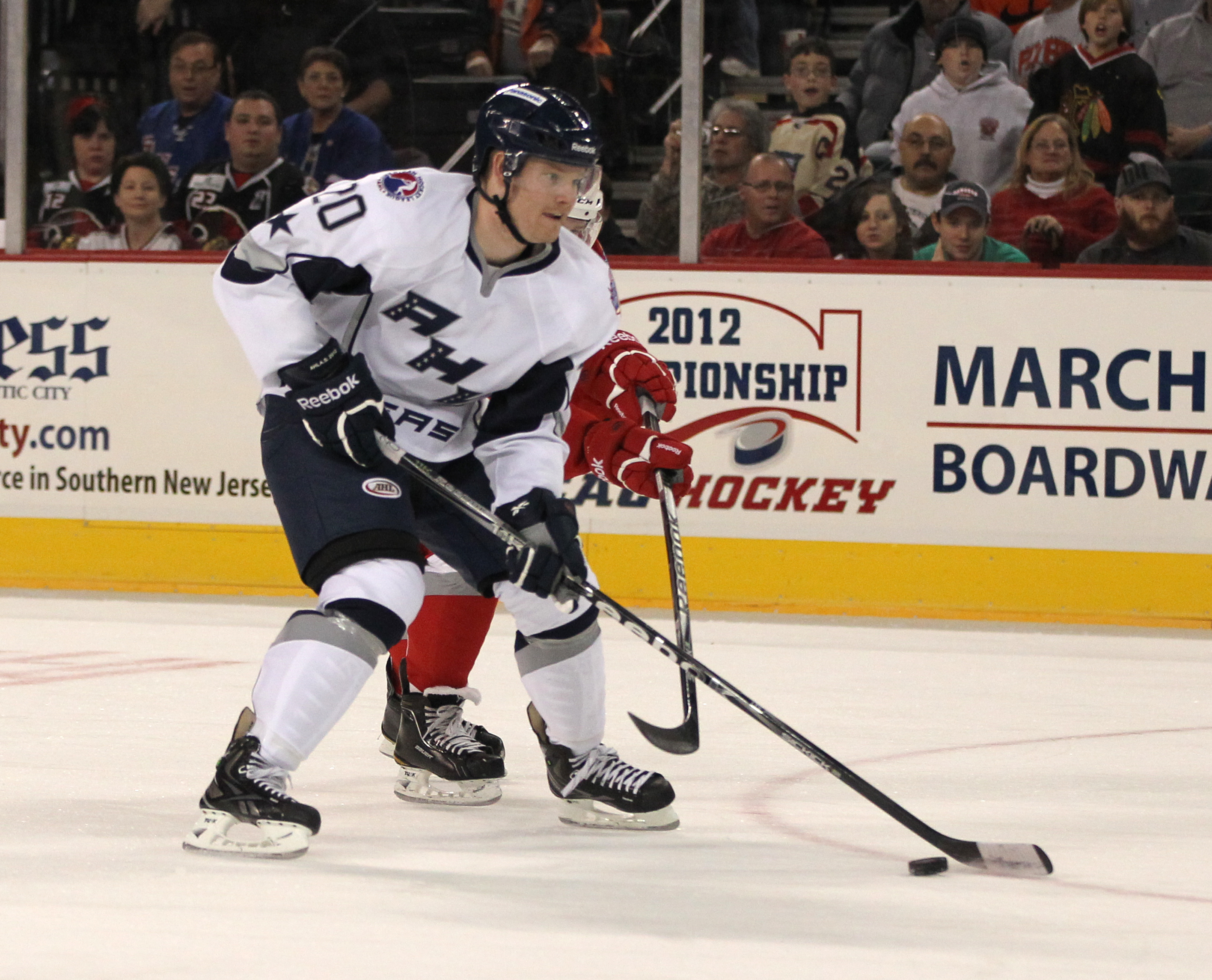 PhotoGraphics Photography/AHL American Hockey League (AHL) All-Star Game Taken on January 30, 2012 using a Canon EOS-1D Mark IV All-Star 1st Period (Set: 14) Keith Aucoin & Alex Plante Brian Connelly, Kyle Palmieri, & Matt Hackett Matt Irwin Brian Connelly, Kyle Palmieri, & Matt Hackett Brian Connelly, Kyle Palmieri, & Matt Hackett Mascot Game Philippe Cornet & Mats Zuccarello Mats Zuccarello & Matt Hackett Mats Zuccarello First photo → This photo also appears in TheAHL's photostream